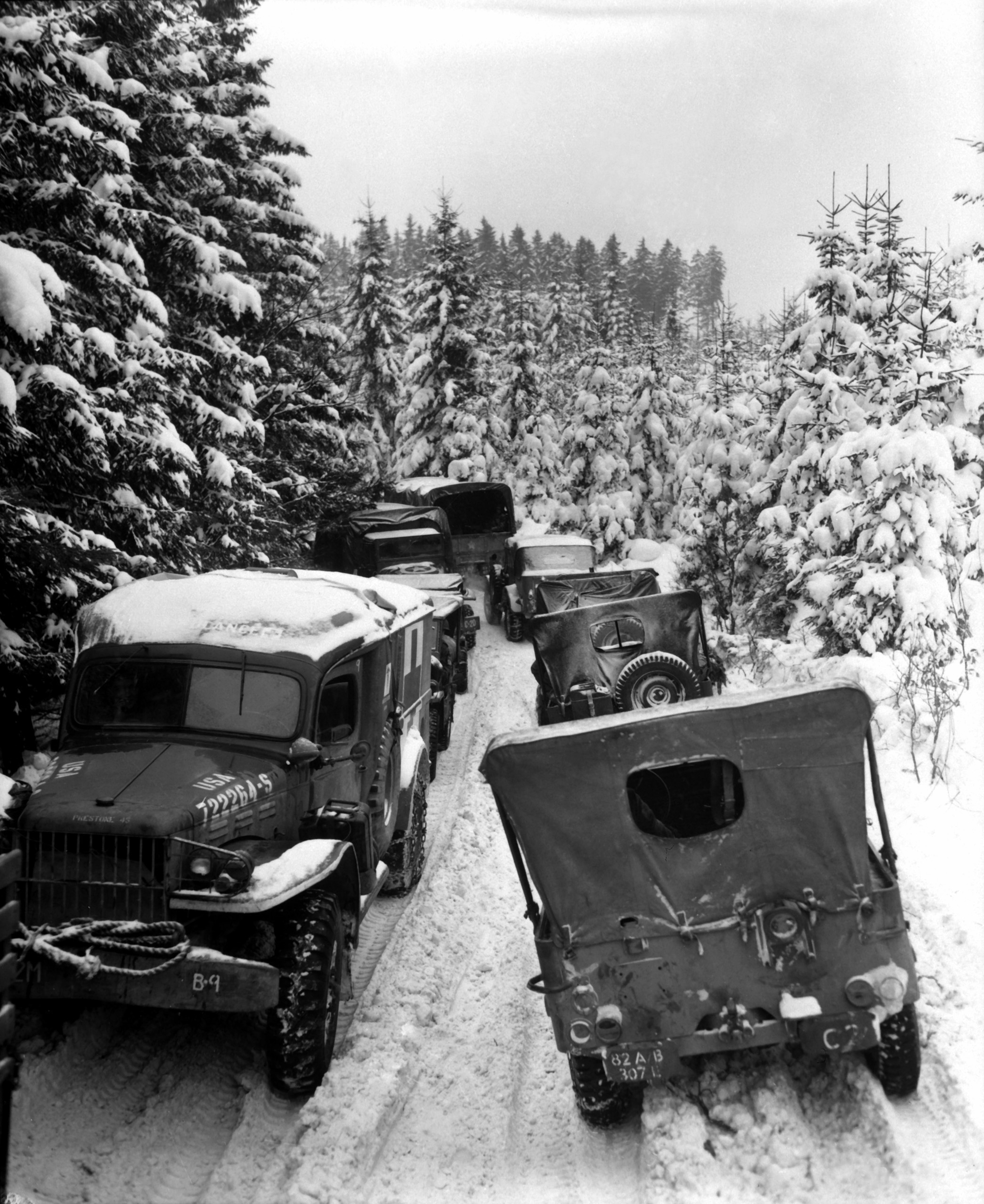 Vehicles of the U.S. 87th Infantry Division in the woods near Wallerode/St. Vith, Belgium, on 30 January 1945. Original caption:' "Deep snow banks on a narrow road halt military traffic in the woods of Wallerode, Belgium. 87th Inf. Div. January 30, 1945."